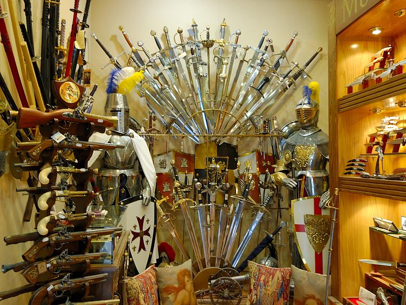 Swords and souvenirs from Toledo (Spain)